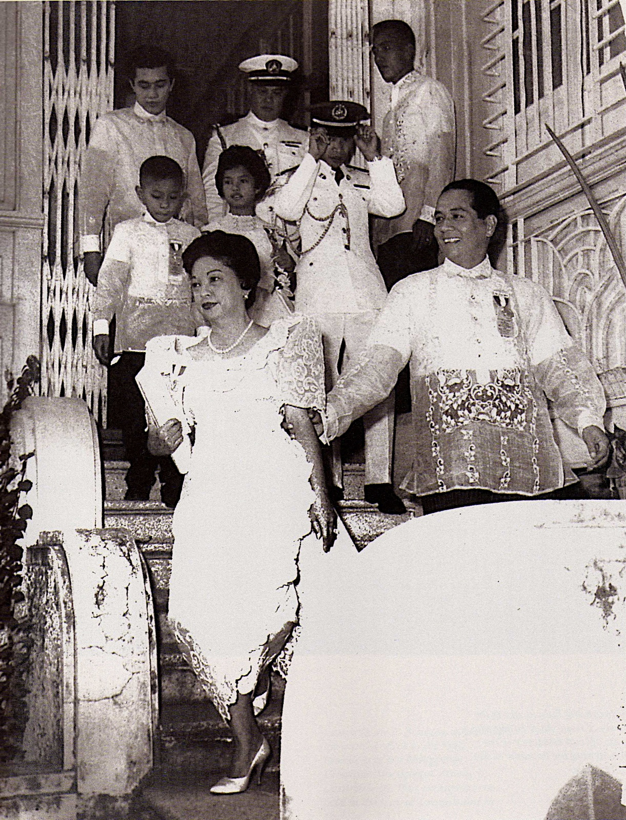 President-elect Diosdado Macapagal departs his mother-in-law's home, his family in tow, for the Malacañang Palace on the day of his inauguration. The original caption is as follows: “President-elect Diosdado Macapagal fetched from his mother-in-law’s residence on Laura Street, San Juan, to fetch Carlos P. Garcia at Malacañan Palace. [Benigno “Ninoy” Aquino Jr. was actually in the committee that picked up Macapagal from the house on Laura Street.]”